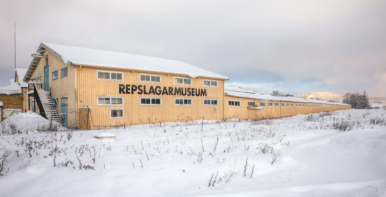 The Rope walk in the municipality of Ale, Sweden. Outdoor picture of the rope walk in wintertime.